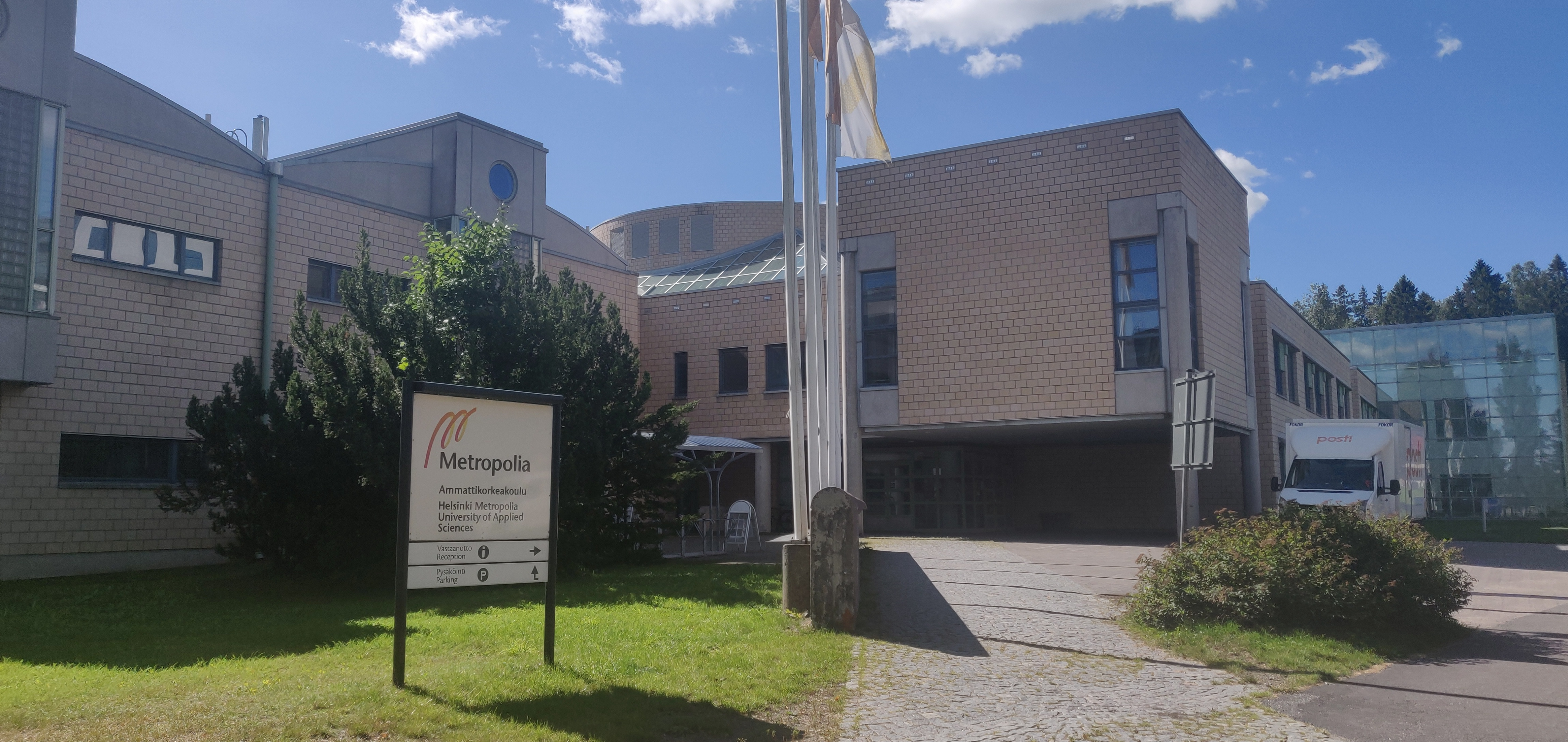 Myyrmäki Campus